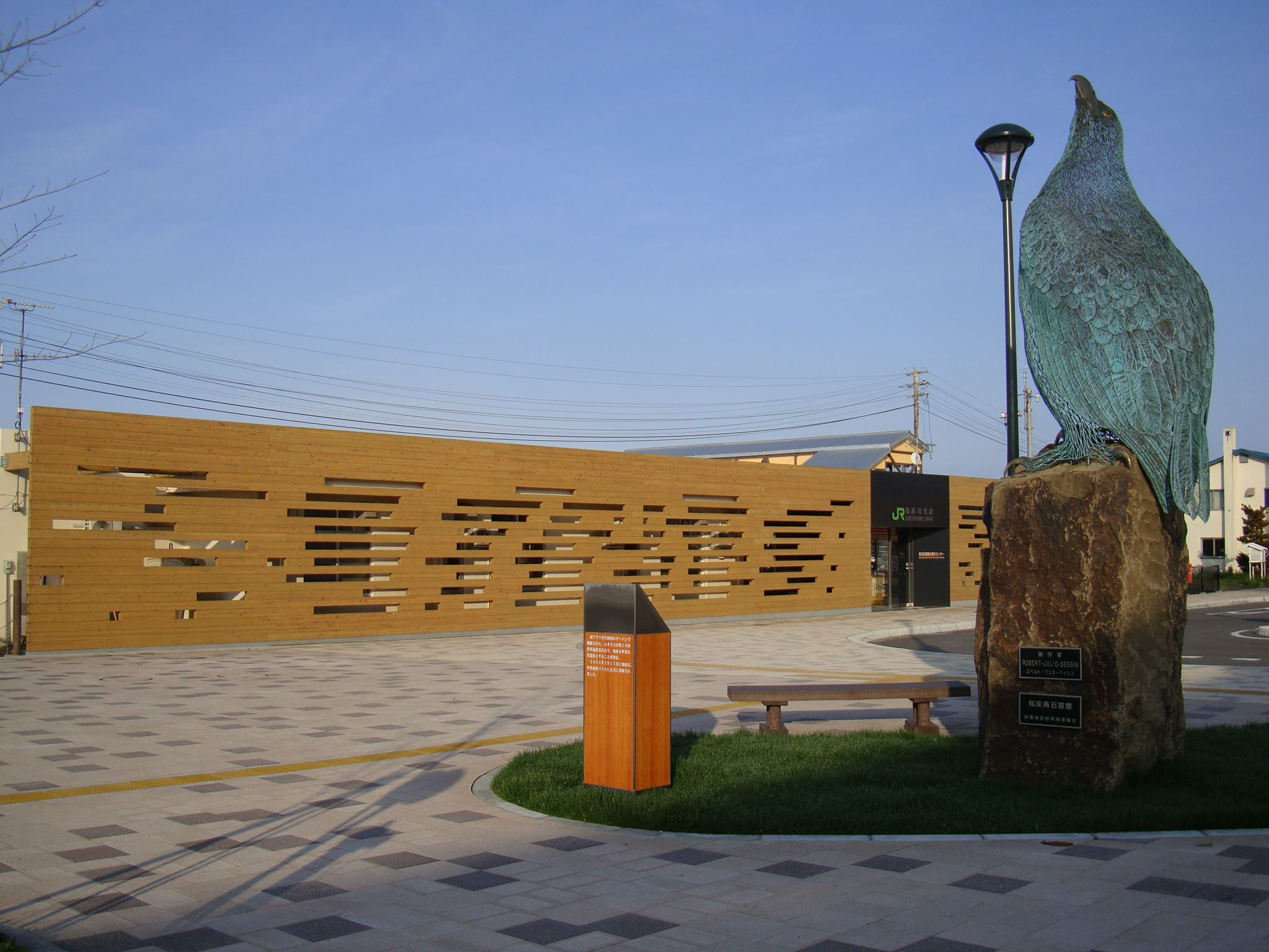 Shiretoko-Shari Station